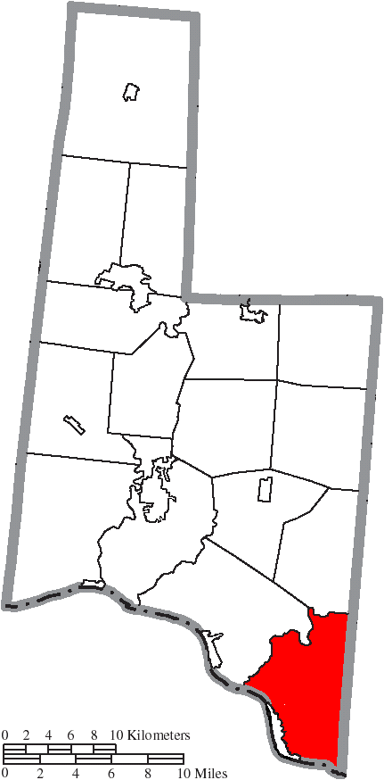 Map of the municipal and township boundaries of Brown County, Ohio, United States, as of the 2000 census, with the location of Huntington Township highlighted. Township borders are shown only in unincorporated areas in order to differentiate incorporated and unincorporated areas more clearly.